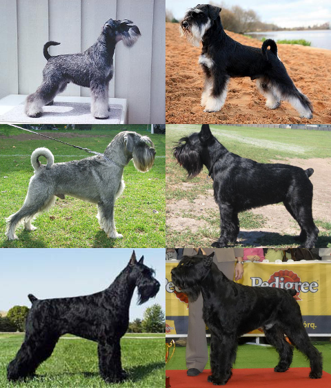 A montage of various sizes of Schnauzer